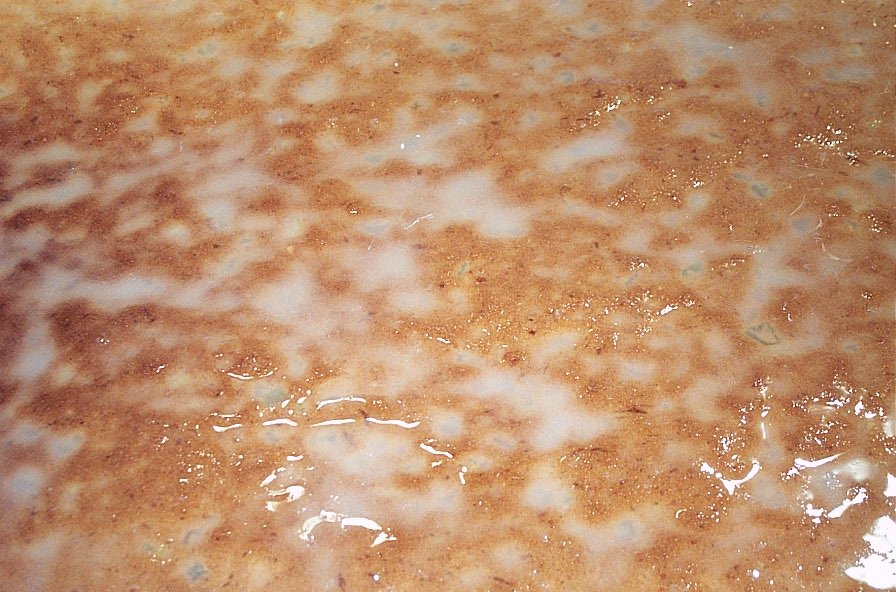 Basler Läckerli, a typical swiss bakery from Basle